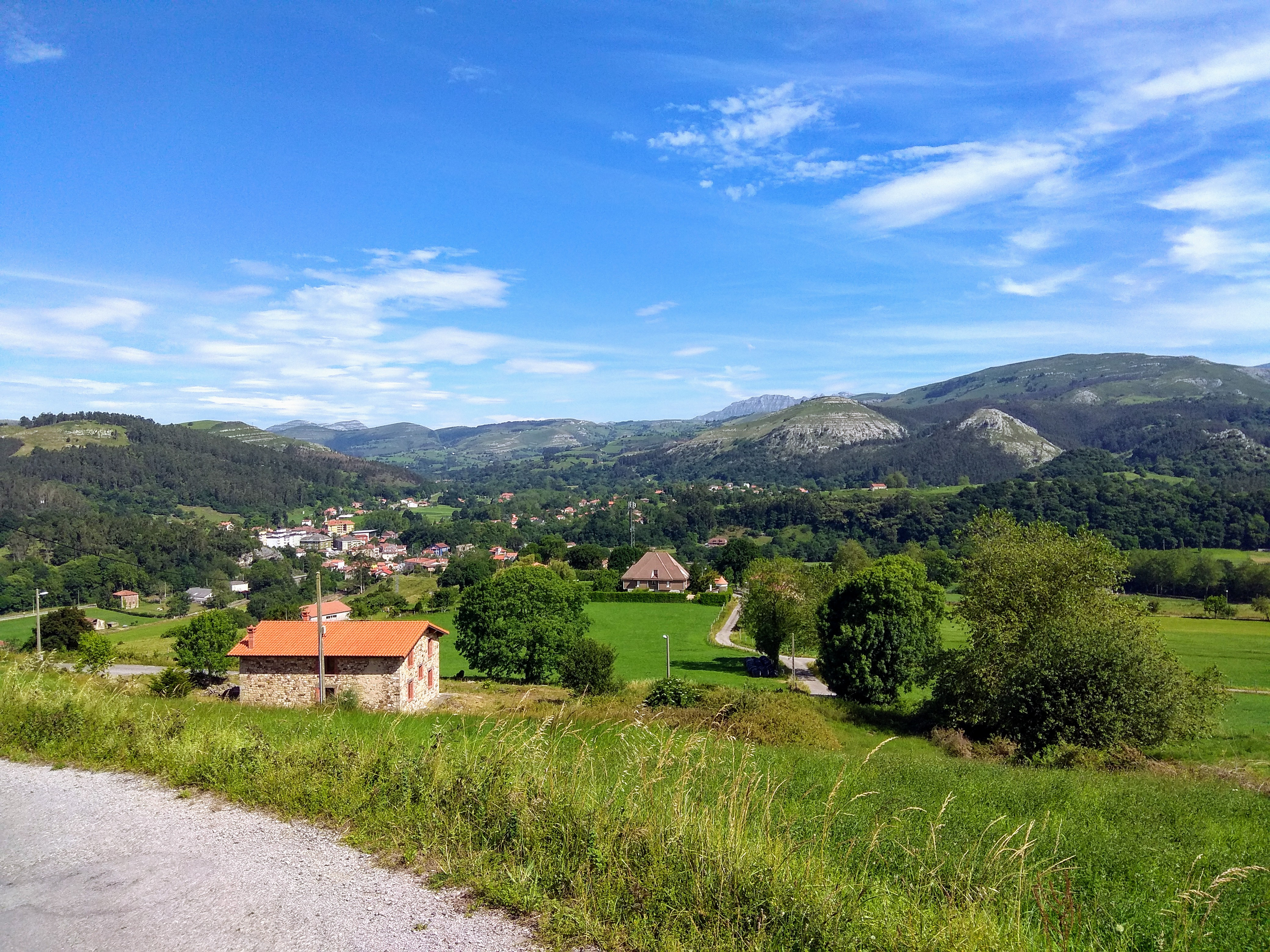 Panoramic view of the municipality of Riotuerto from Sierra Hermosa (Cantabria, Spain)